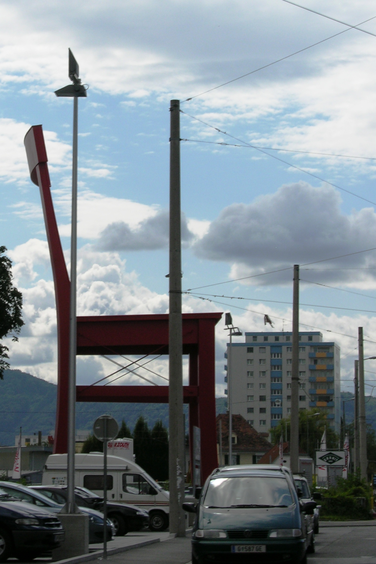 XXXL-Chair in front of a market in Graz, Austria